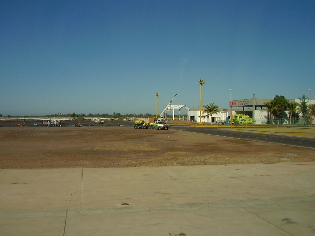 Los Mochis International Airport